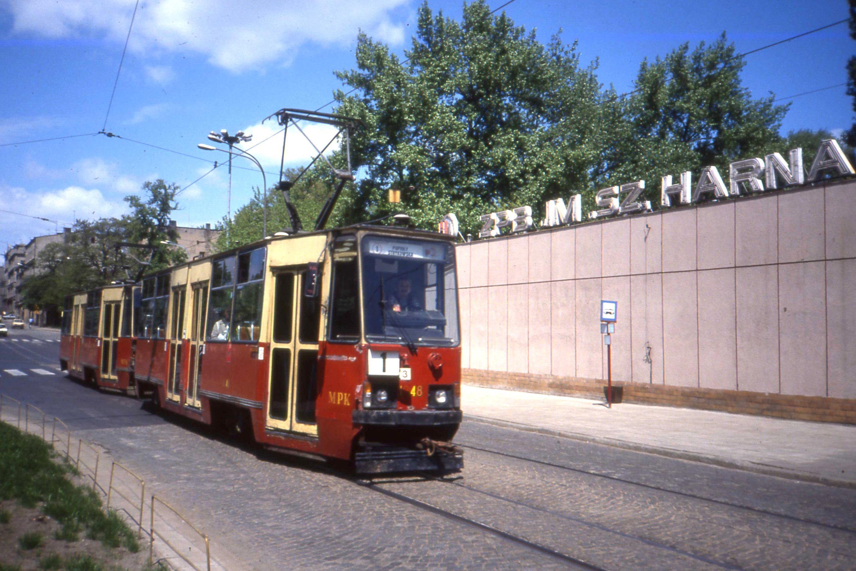 Konstal 805Na tram no. 1248 on route 1 on Kilińskiego Street, direction from Wojska Polskiego. This tram was new in 1983, as 248. It was renumbered in 1986, but has also been variously 6248 and finally 5248. There is advertising, perhaps neon, on the wall for a large textile concern in the city, ZPB im. Sz. Harnama w Łodzi, ul. Kilińskiego 3 (also ul Smugowa 11), later Rena-Kord SA (ZPB = Zakłady Przemysł u Bawełnianego, a textile company. Zaklady = Factories, Przemysl = Industry, Bawełna = Cotton). Lodz being an enormous textile weaving city. See here for list of Lodz 805Na trams. And here for more up-to-date photos